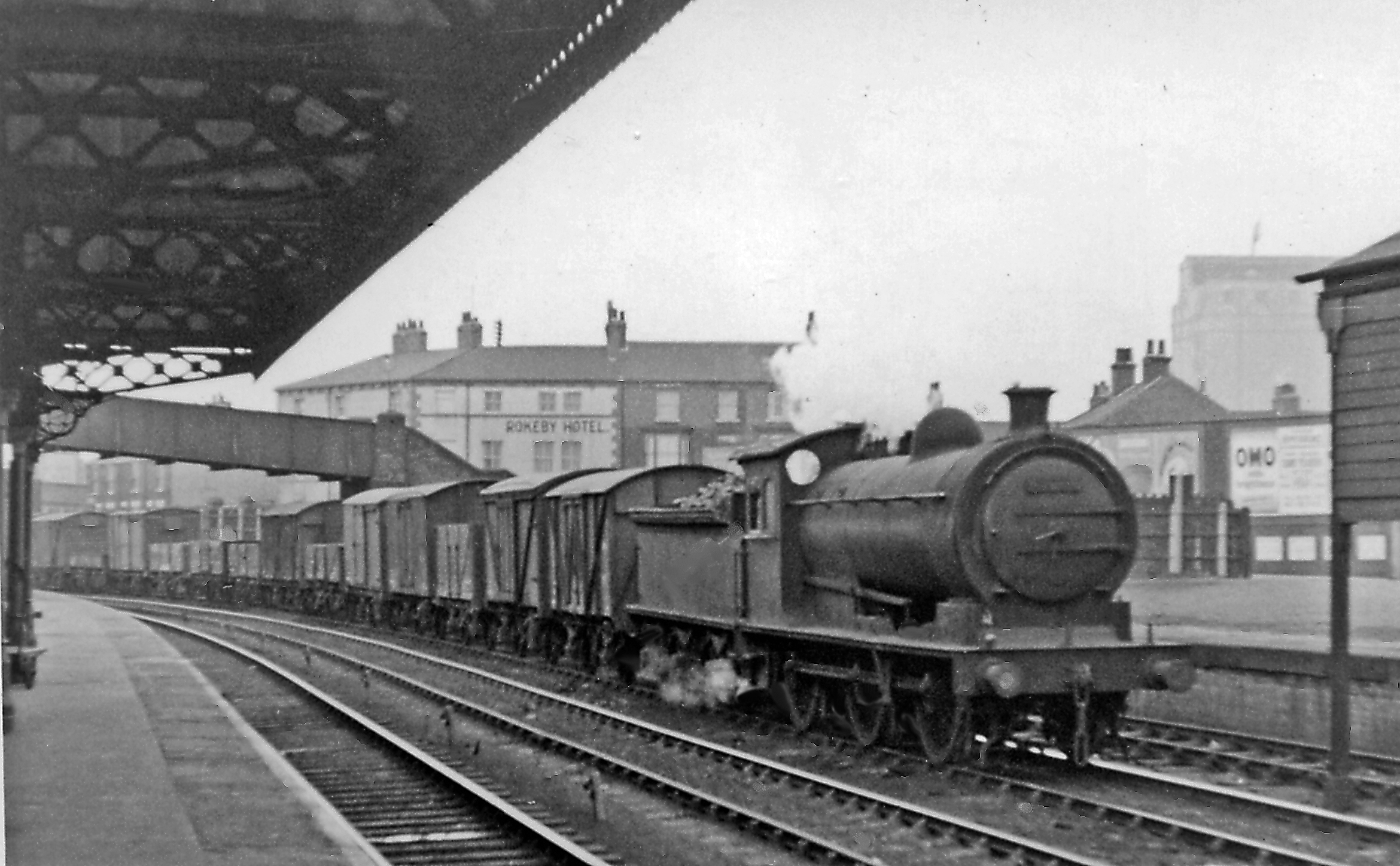 Down freight passing Thornaby station. View westward, towards Bowesfield Junction and the division of main lines northward to Stockton and across Co. Durham to Ferryhill, Sunderland and Newcastle by three routes, also westward to Eaglescliffe thence Darlington or Northallerton and the South: eastward from here was Newport Yard, Middlesbroug with all its great industry, then Saltburn and the Cleveland lines to Whitby etc. Therefore passing through Thornaby was a constant procession of heavy freight traffic. Here a Class J freight is headed by one of the ex-NER W. Worsdell class P2 (LNER J26) 0-6-0s concentrated in the area, No. 65774 (built as No. 525 in 10/1905, renumbered in 1946 as 5774, withdrawn 7/61).